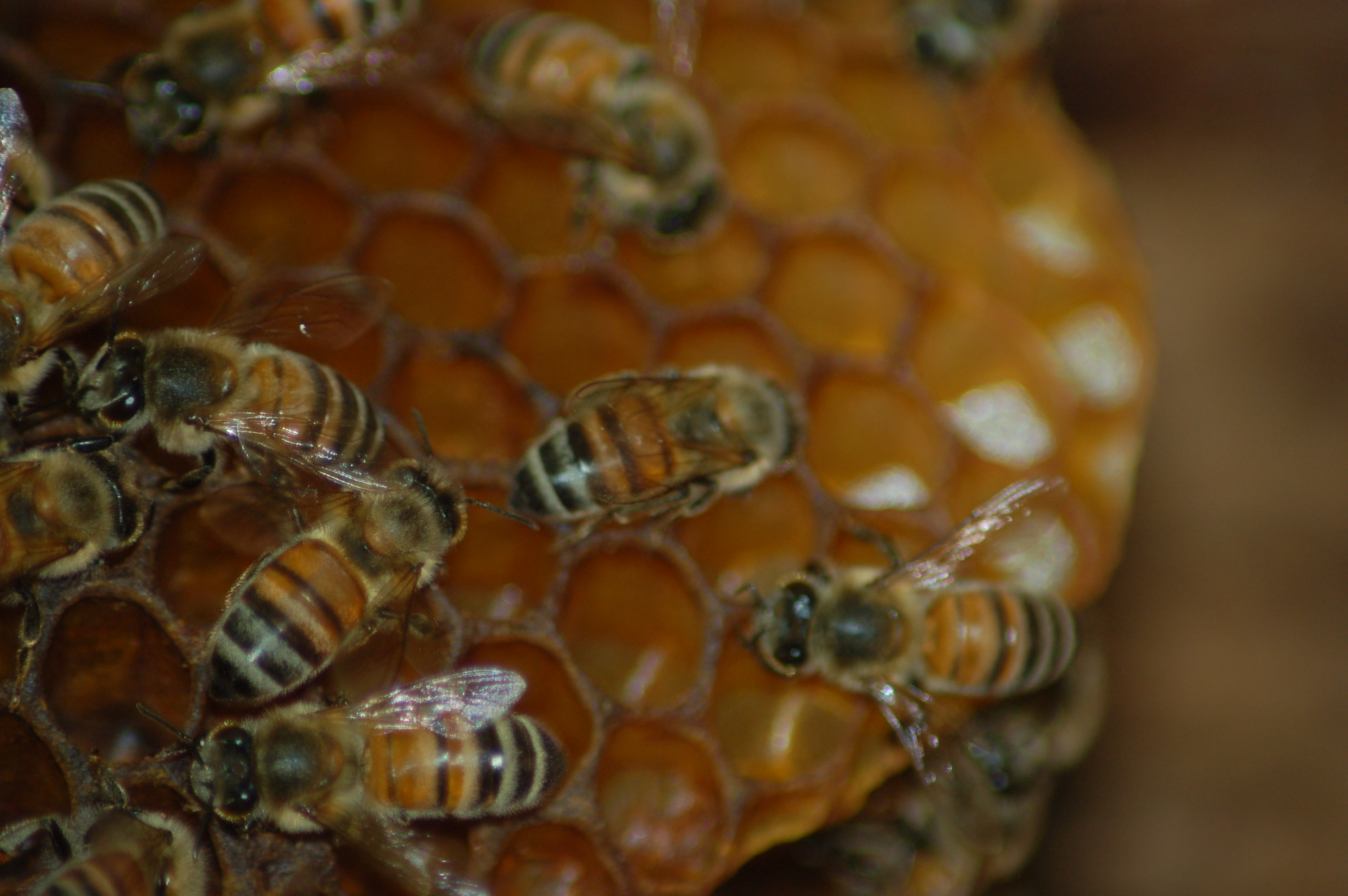 The comb was sticking out of a hollow tree into full view